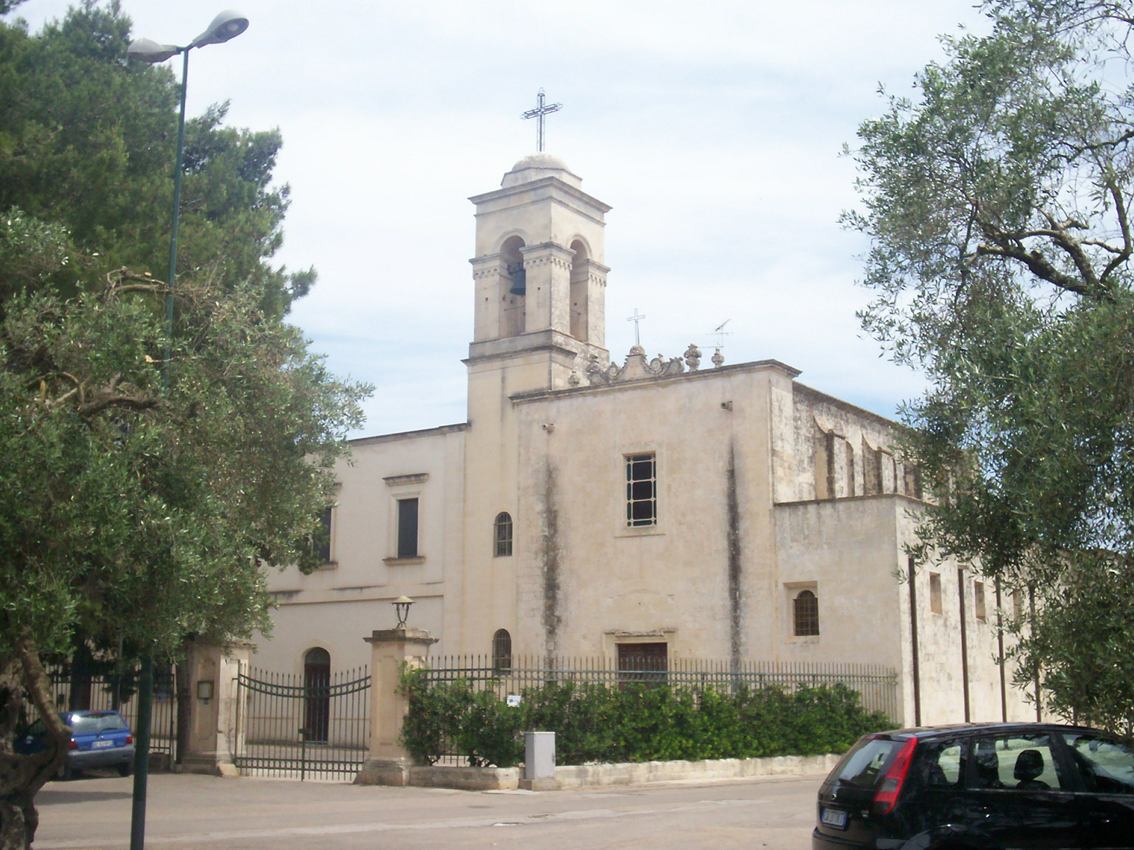 Cistercensians monastery of Mother of the Consolation in Martano, province of Lecce - Apulia (Italy)